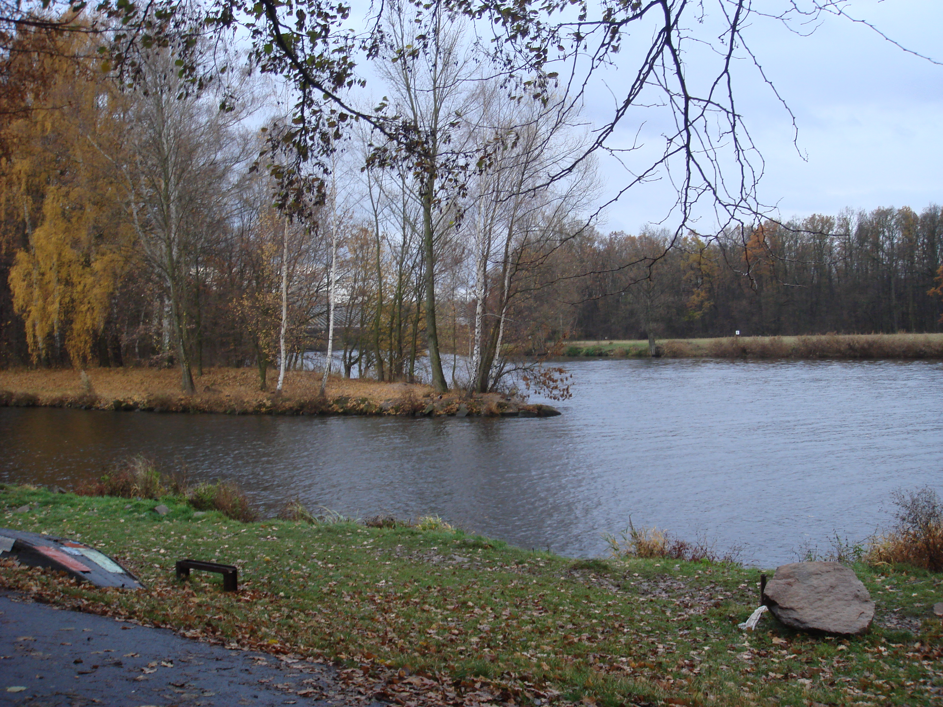 Confluence of Labe and Cidlina (Central Bohemian Region, Czechia).